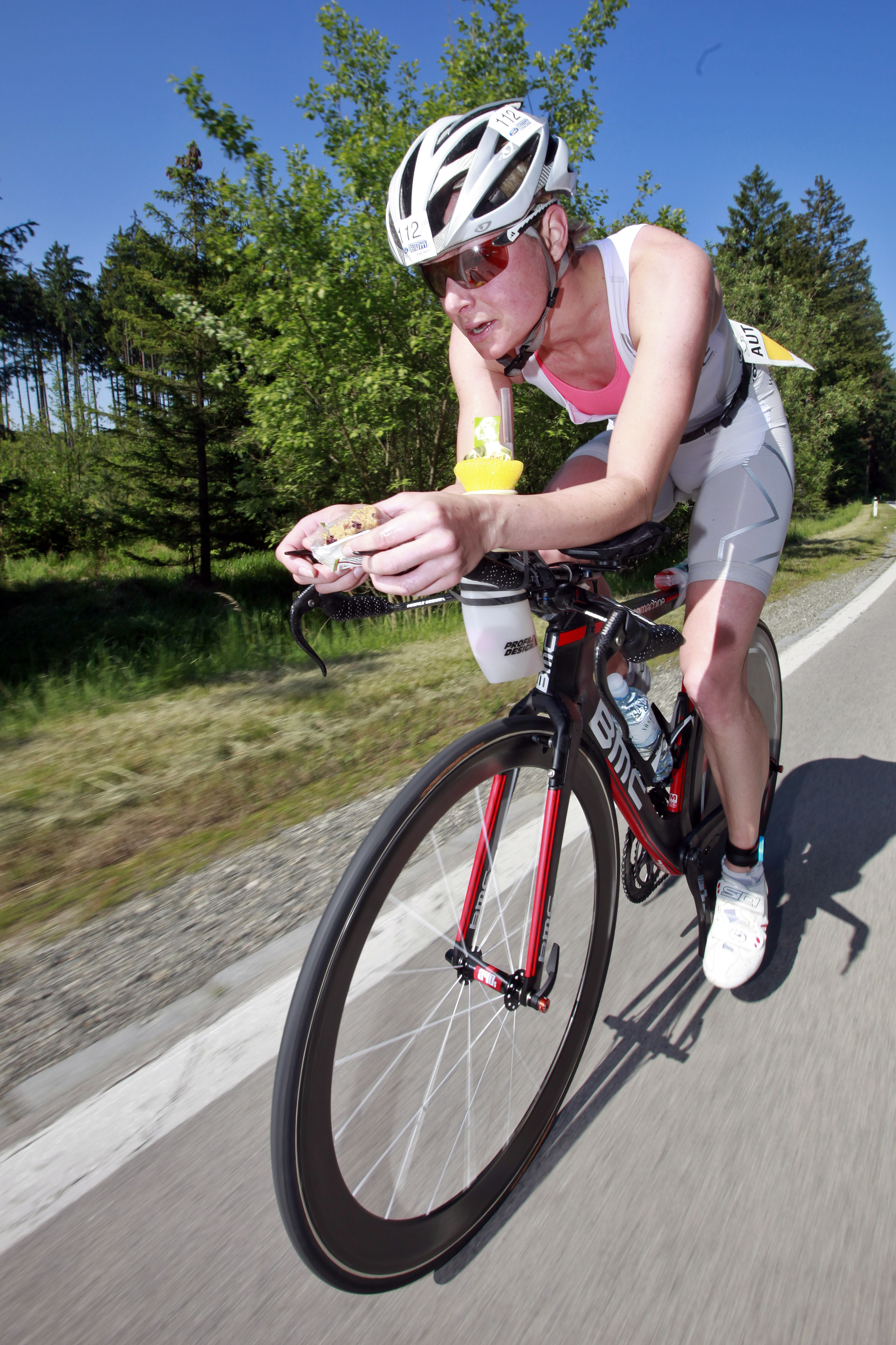 Irina Kirchler at Ironman 70.3 Austria 2012